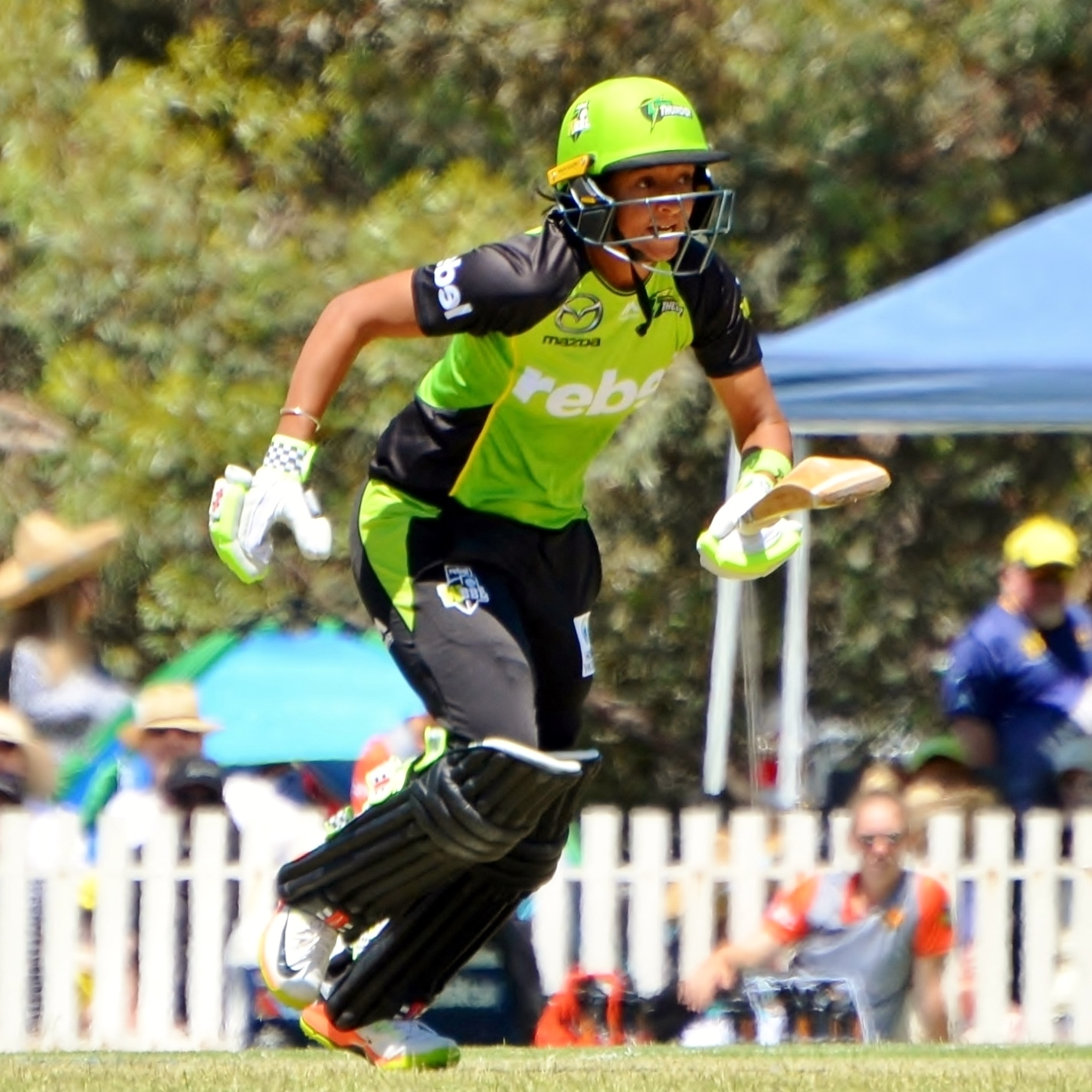 Harmanpreet Kaur batting for Sydney Thunder against the Perth Scorchers, in a WBBL match at Lilac Hill Park in Perth